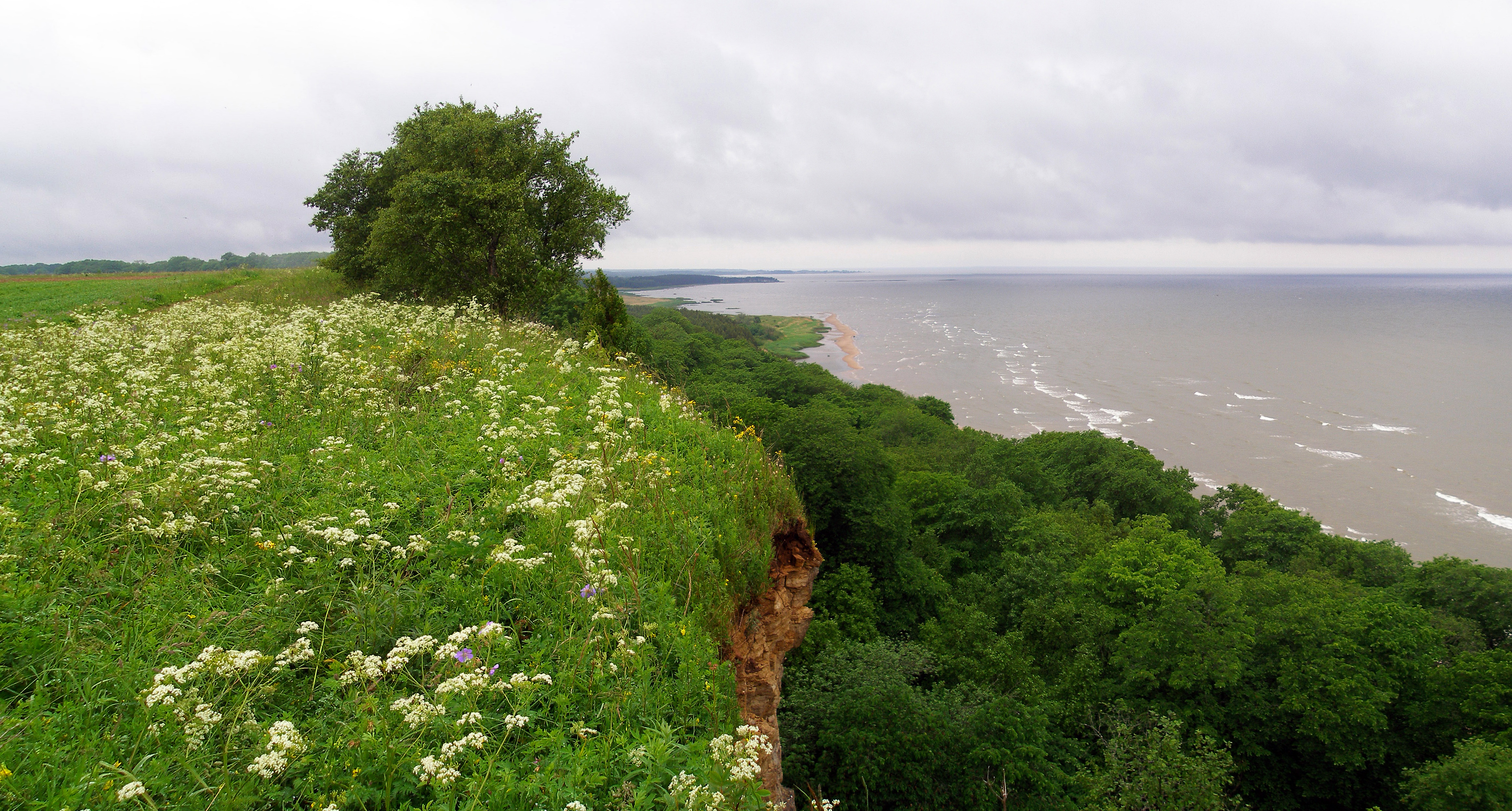 Aseri cliff in Estonia, part of Baltic Klint. h=50 m a.s.l.